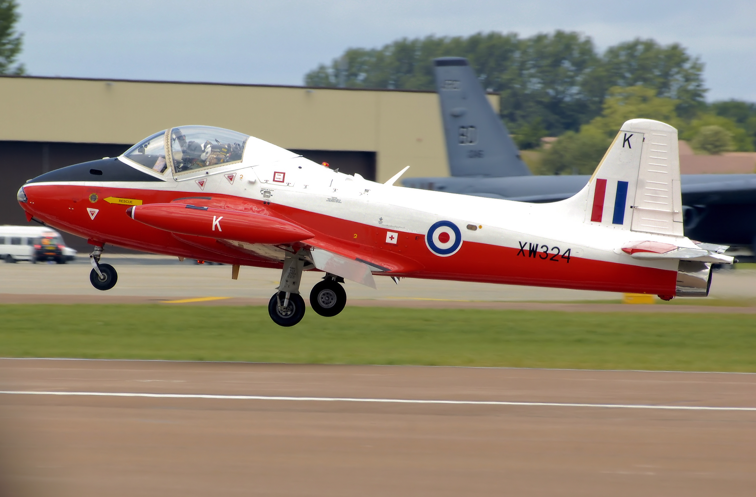 British Aircraft Corporation Jet Provost T5 (RAF registration XW324, now civil registered as G-BWSG) lands at the Royal International Air Tattoo, Fairford, Gloucestershire, England. XW324 was built at Warton, England, in 1970, for the RAF. This aircraft is privately owned and operated but has retained its RAF markings. Note that this picture was taken at Fairford on the Thursday before the Saturday/Sunday of RIAT. Both days of the show were later cancelled due to waterlogged car parks. Photographed by Adrian Pingstone in July 2008 and placed in the public domain.